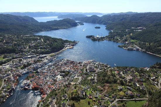 Flekkefjord